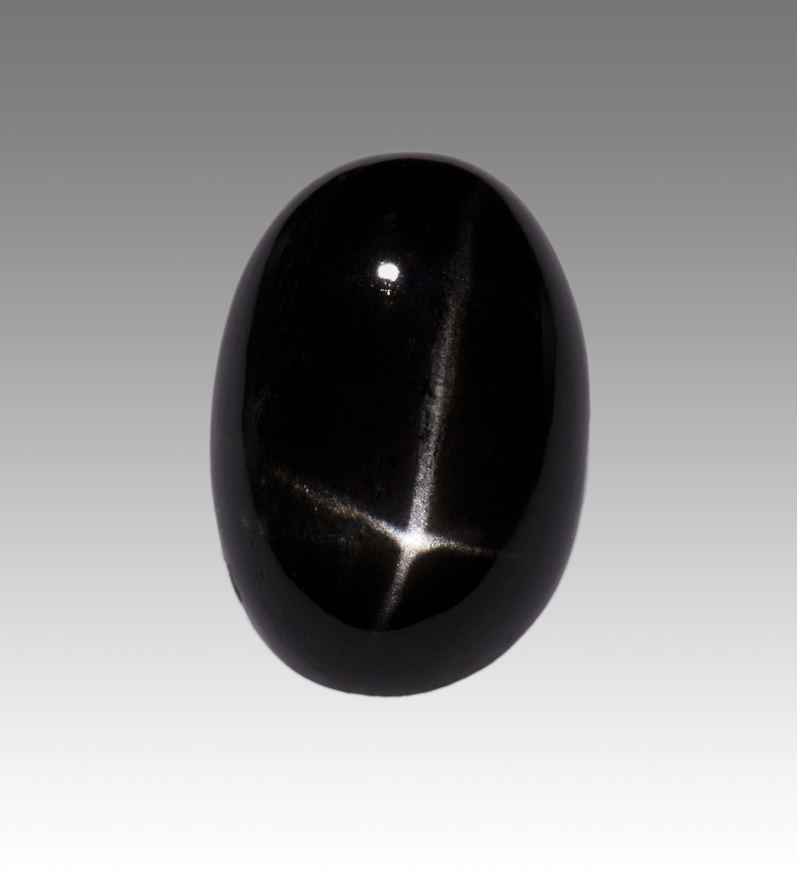 Diopside - Cabochon with Lightstar Locality: India Size : 2.55 x 1.73 x 0.92 cm 39cts35